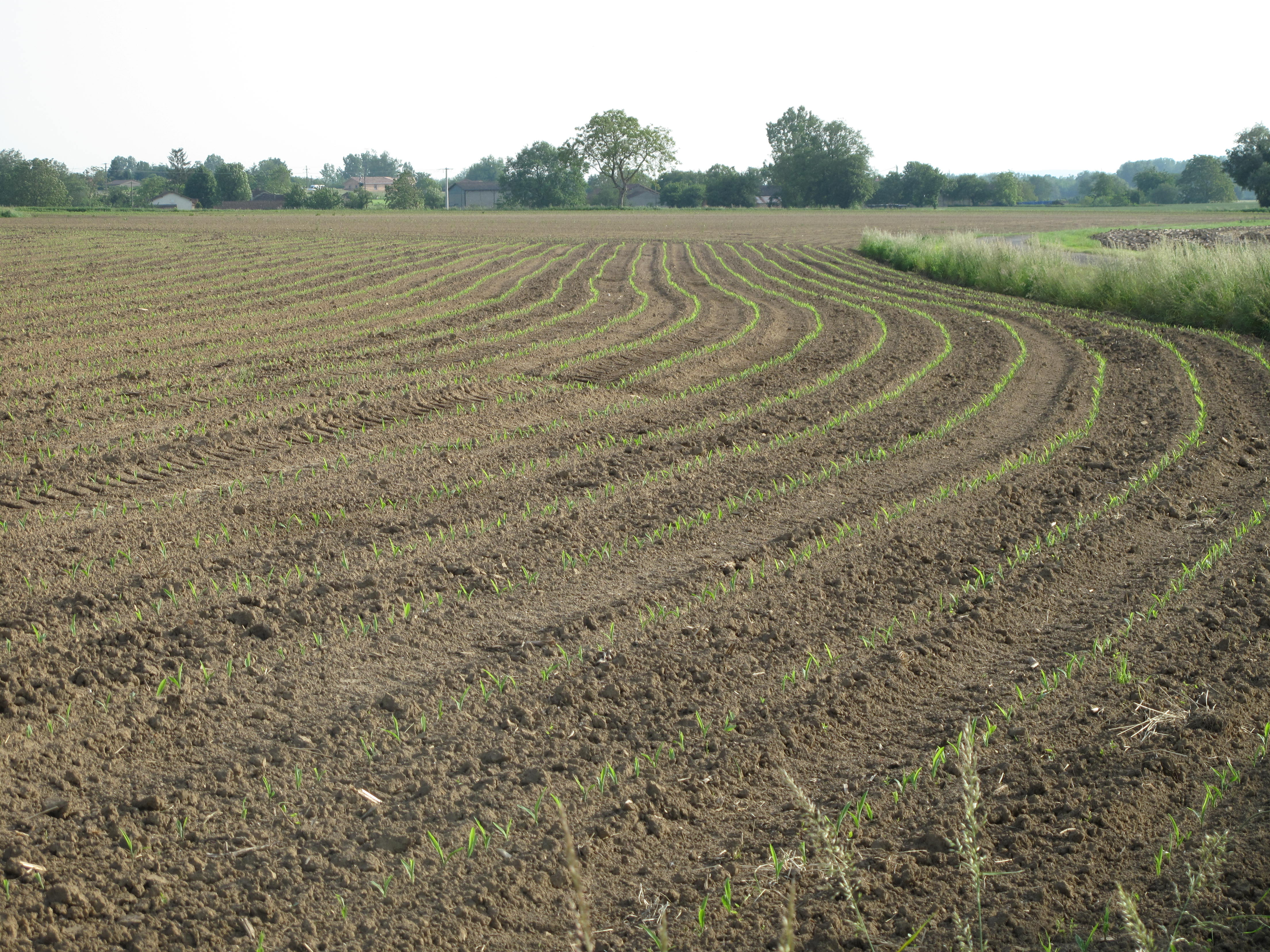 Maize seedlings in Arbigny (Ain, France).